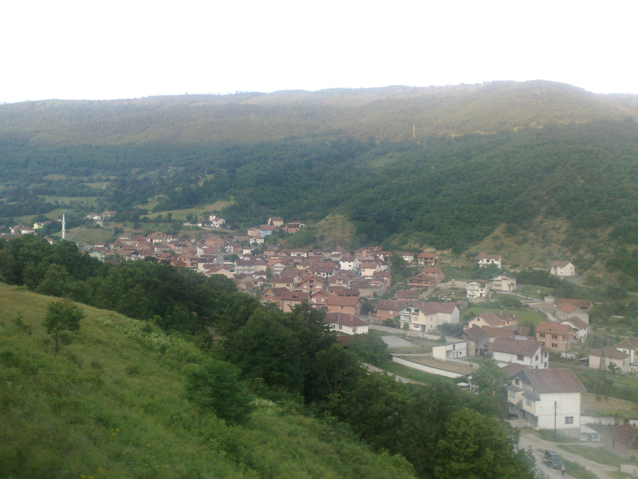 village of Lakavica, near Gostivar, Macedonia